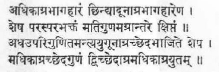 Description of Kuttaka as given by Aryabhata in Aryabhatiya in Devanagari. The verses are presented as image to circumvent problems related to nonavailability of fonts.